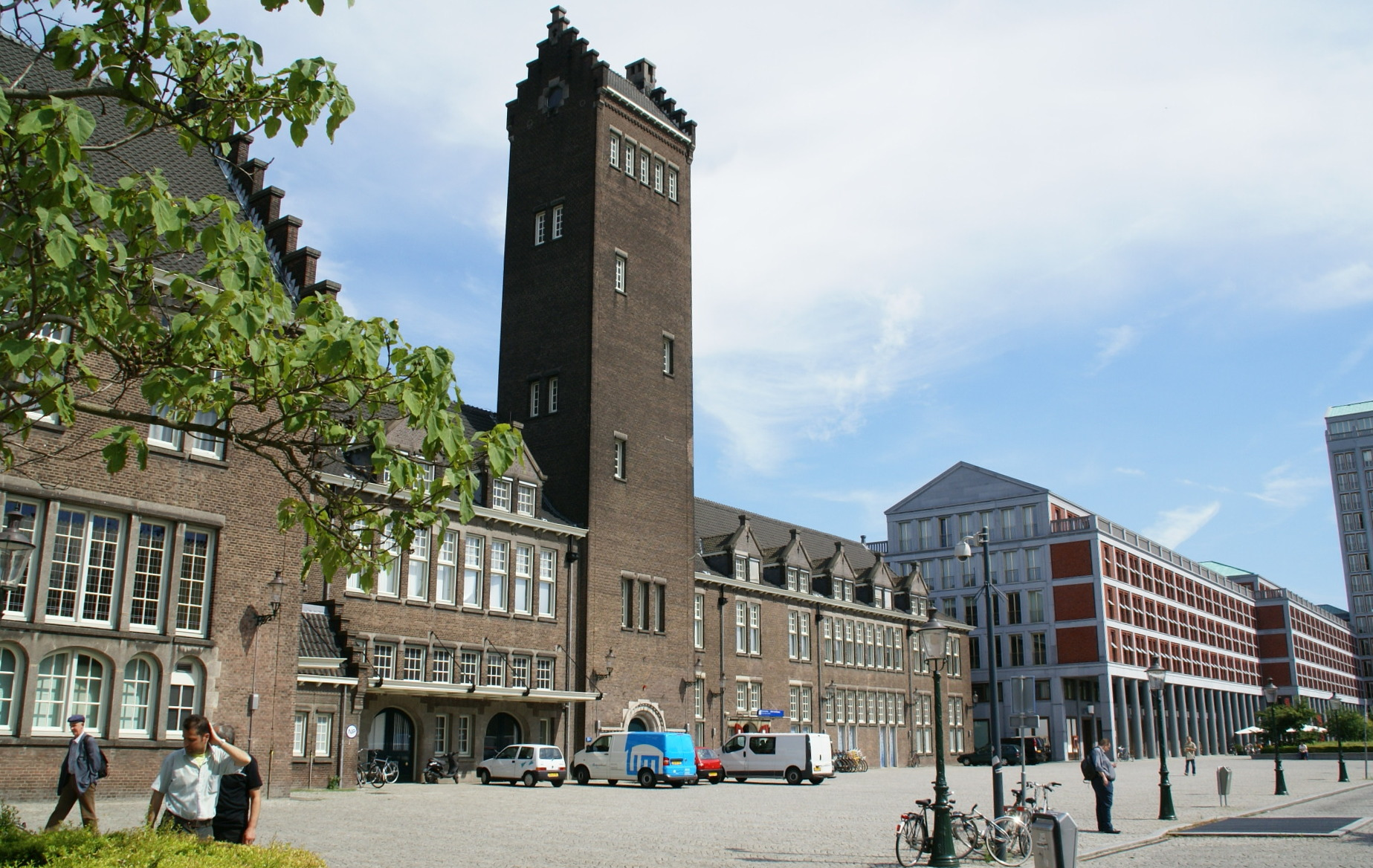 Train station in Maastricht, Netherlands